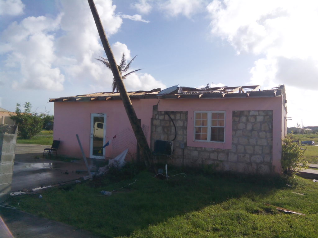 Hurricane Irma that destroyed 95% of Barbuda's infrastructures